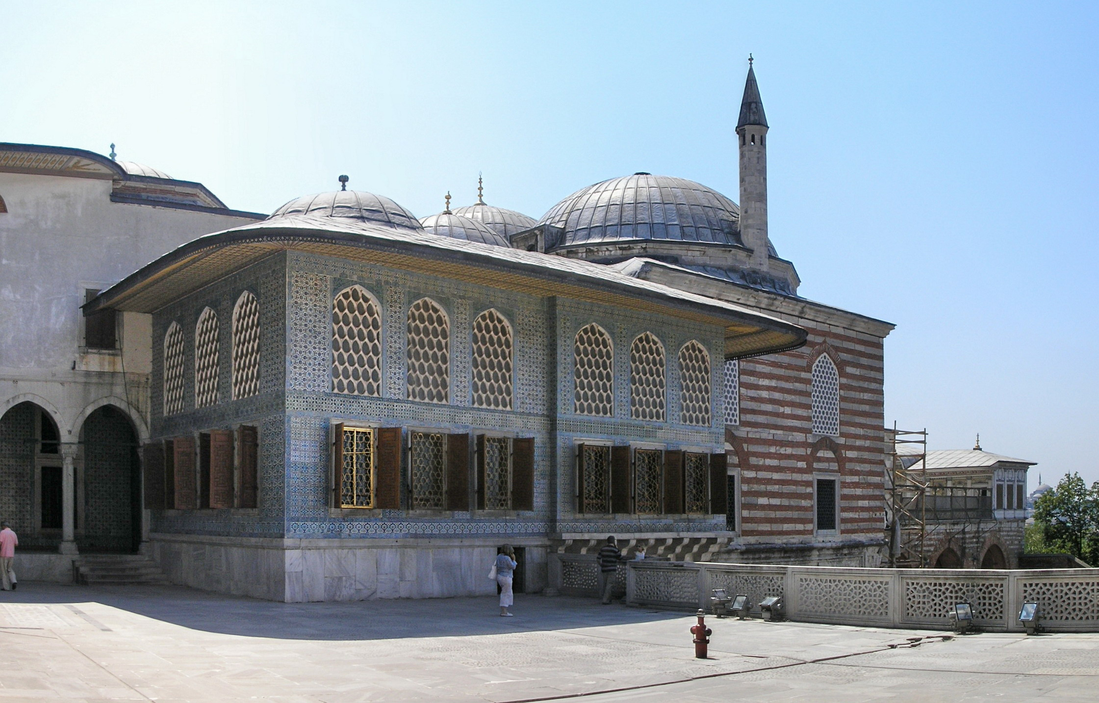 Outside view of the apartments of the crown prince, Topkapi Palace, Istanbul, as seen from the Concubine's courtyard.